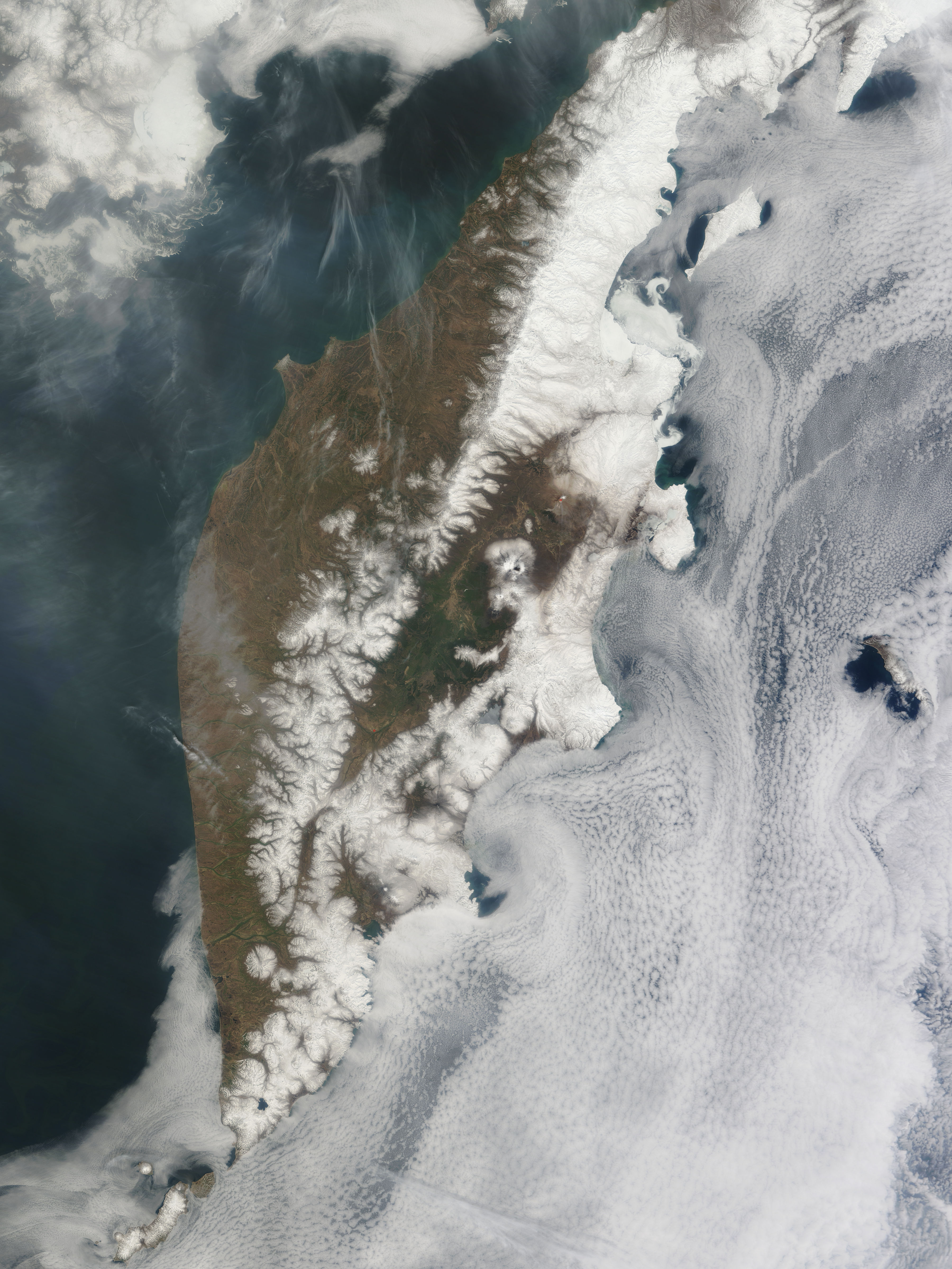 This photo-like image captures clouds hugging the east coast of Russia’s Kamchatka Peninsula while skies inland remained clear. The clear skies revealed a landscape thawing out from winter’s chill. Neatly skirting the peninsula, the clouds over the Bering Sea and the southern part of the Sea of Okhotsk present a textured landscape of their own. Arcs of clouds push up against the coastline, fanning out along the shore. Rather than showing a uniform thickness, the clouds vary from opaque to almost transparent, with a few areas of clear skies revealing deep blue ocean water. On the peninsula, brown-green land surrounds what remains of the snow cover.